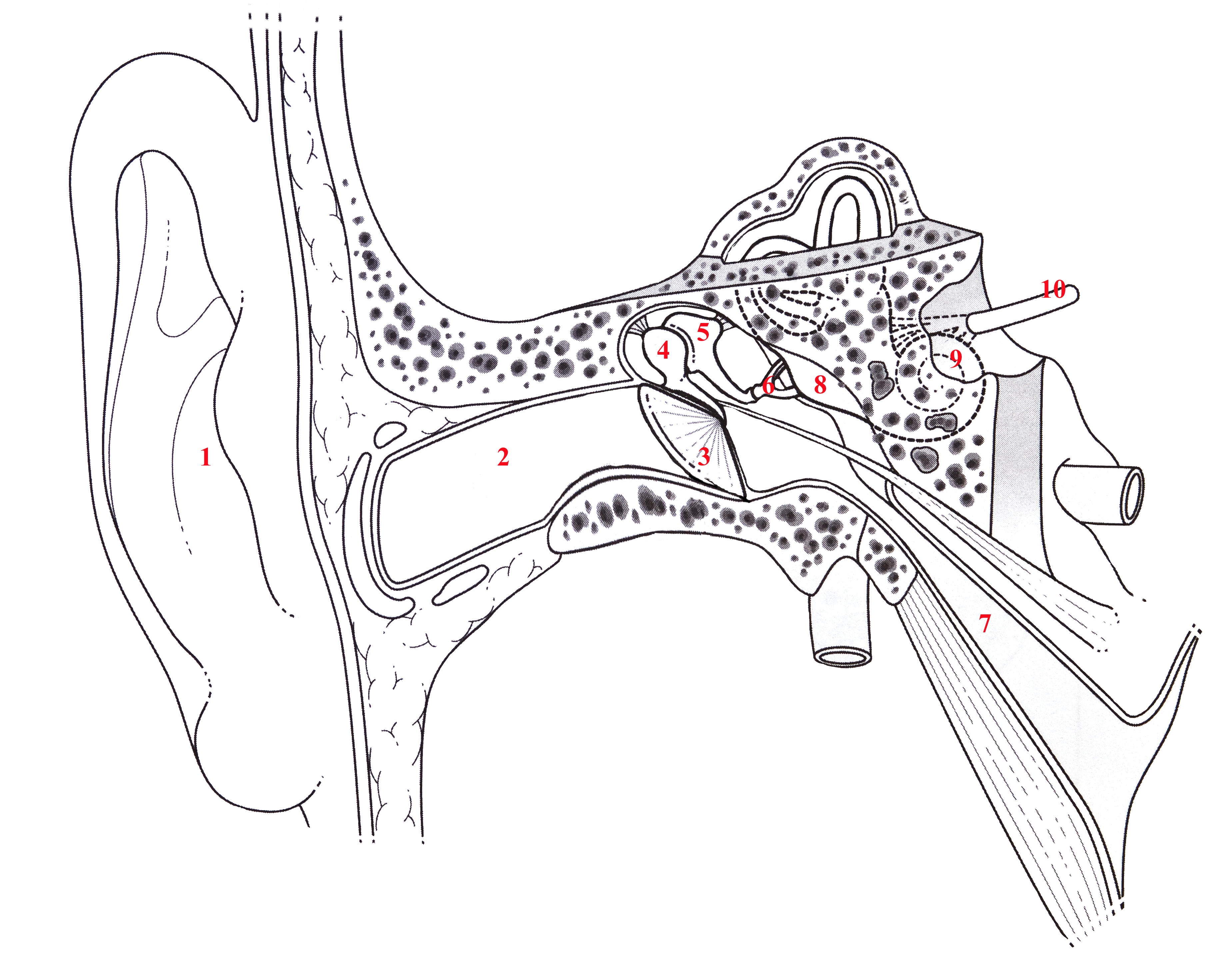 Ear Schema : 1) Pinna 2)Ear canal 3)Eardrum 4)Malleus 5)Incus 6)Stapes 7)Eustachina tube 8)Inner Ear 9)Cochlea 10)cochlear nerve